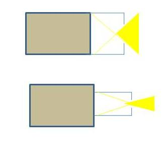 Snoot